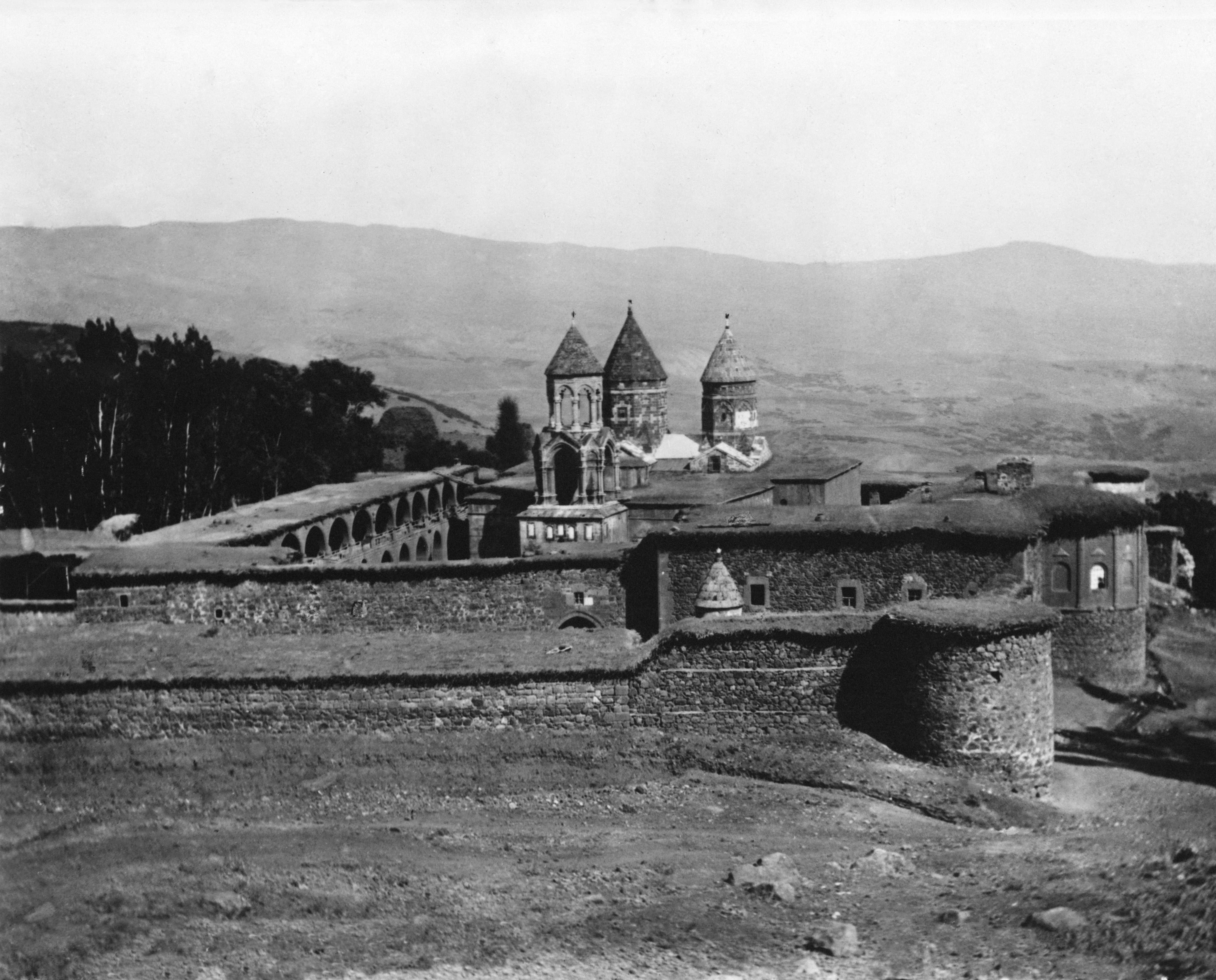 The Surb Karapet Monastery near Mush